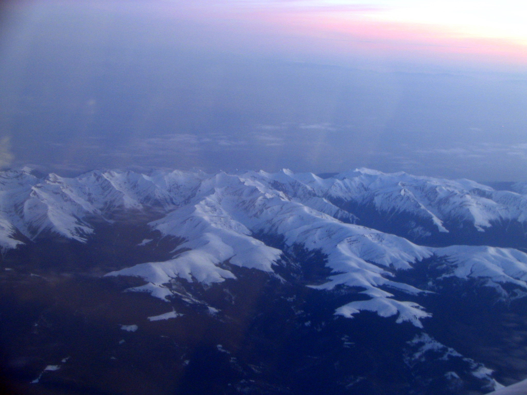 Făgăraş Mountas, as seen from a plane